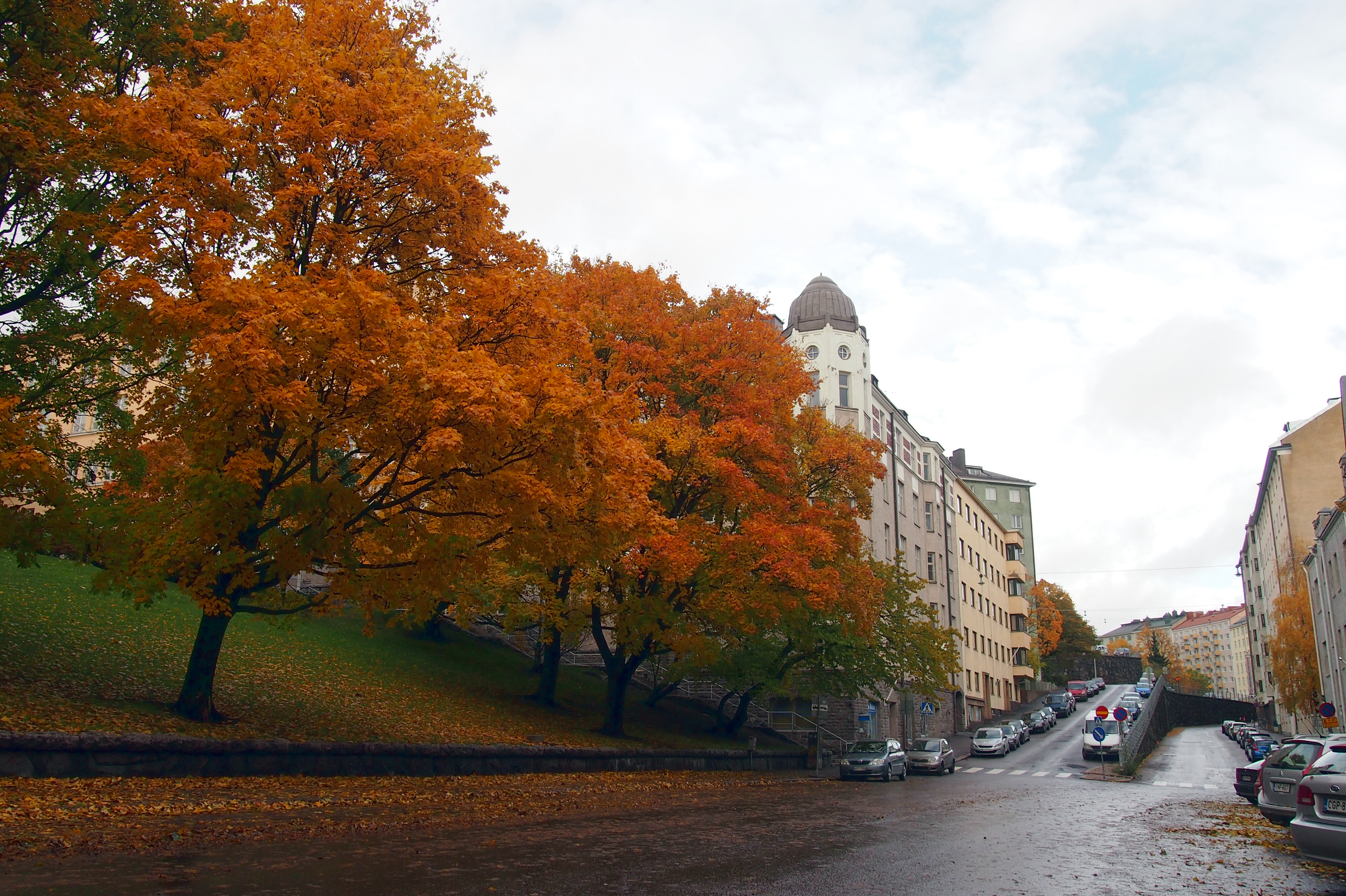 The street Pengerkatu in Kallio, Helsinki, Finland.